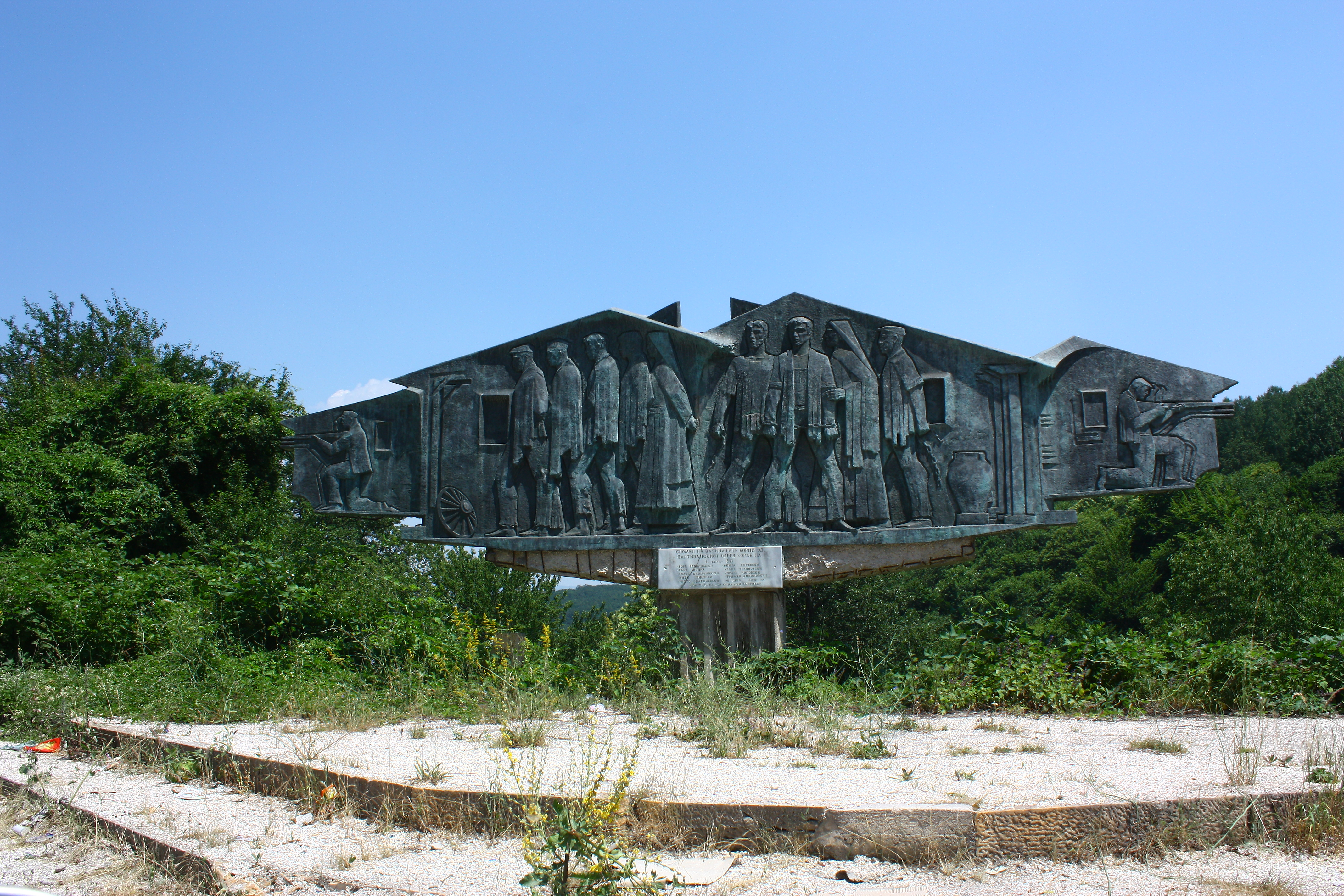 Novo Selo between Gostivar and Mavrovo, Macedonia